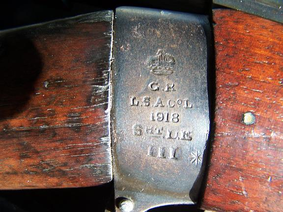 The wristguard markings on a 1918-dated Short Magazine Lee-Enfield Mk III* rifle, manufactured by the London Small Arms Co. Ltd Taken by User:Commander Zulu, June 2004